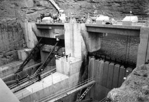 Spillway gates at Glen Canyon Dam — during record floods of 1983. Note the "flashboards" installed atop the gates to prevent water from spilling over.